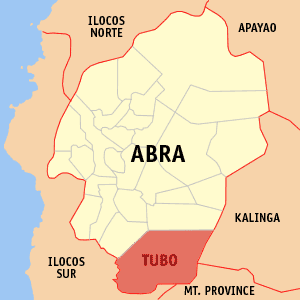 Map of Abra showing the location of Tubo